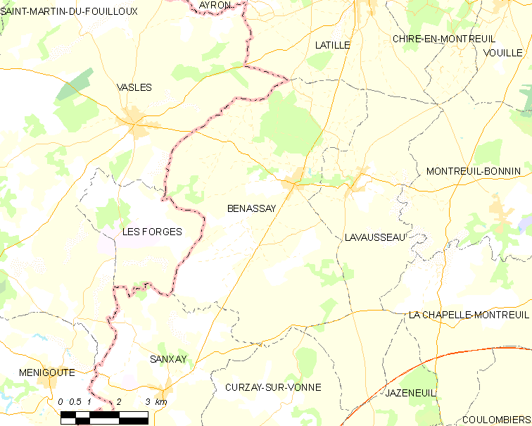 Map of French municipality Benassay